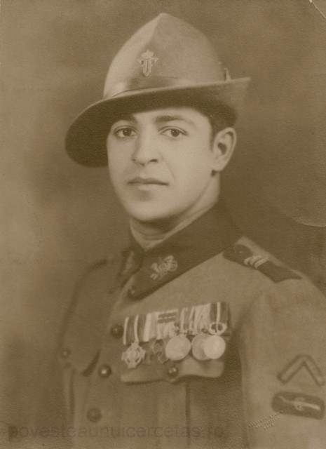 cpt. Ioan Dimancescu from the Mountain Troops, Romanian Army